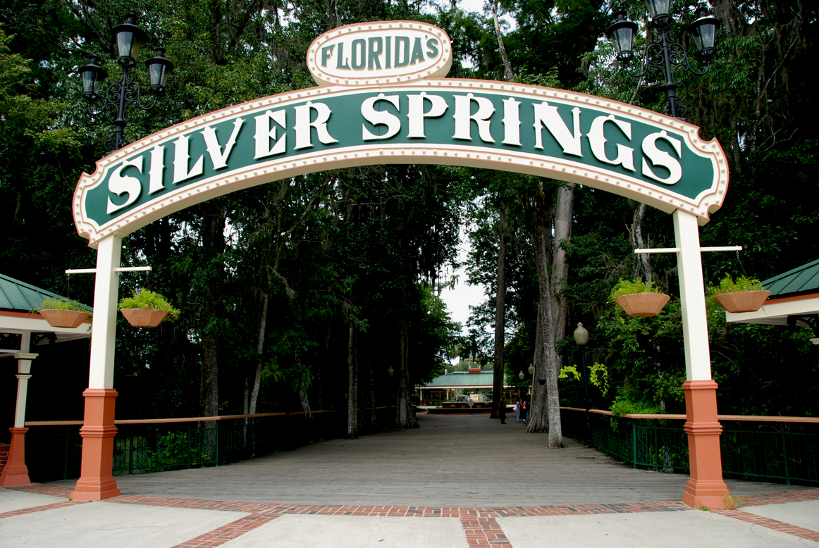 Silver Springs Florida Entrance